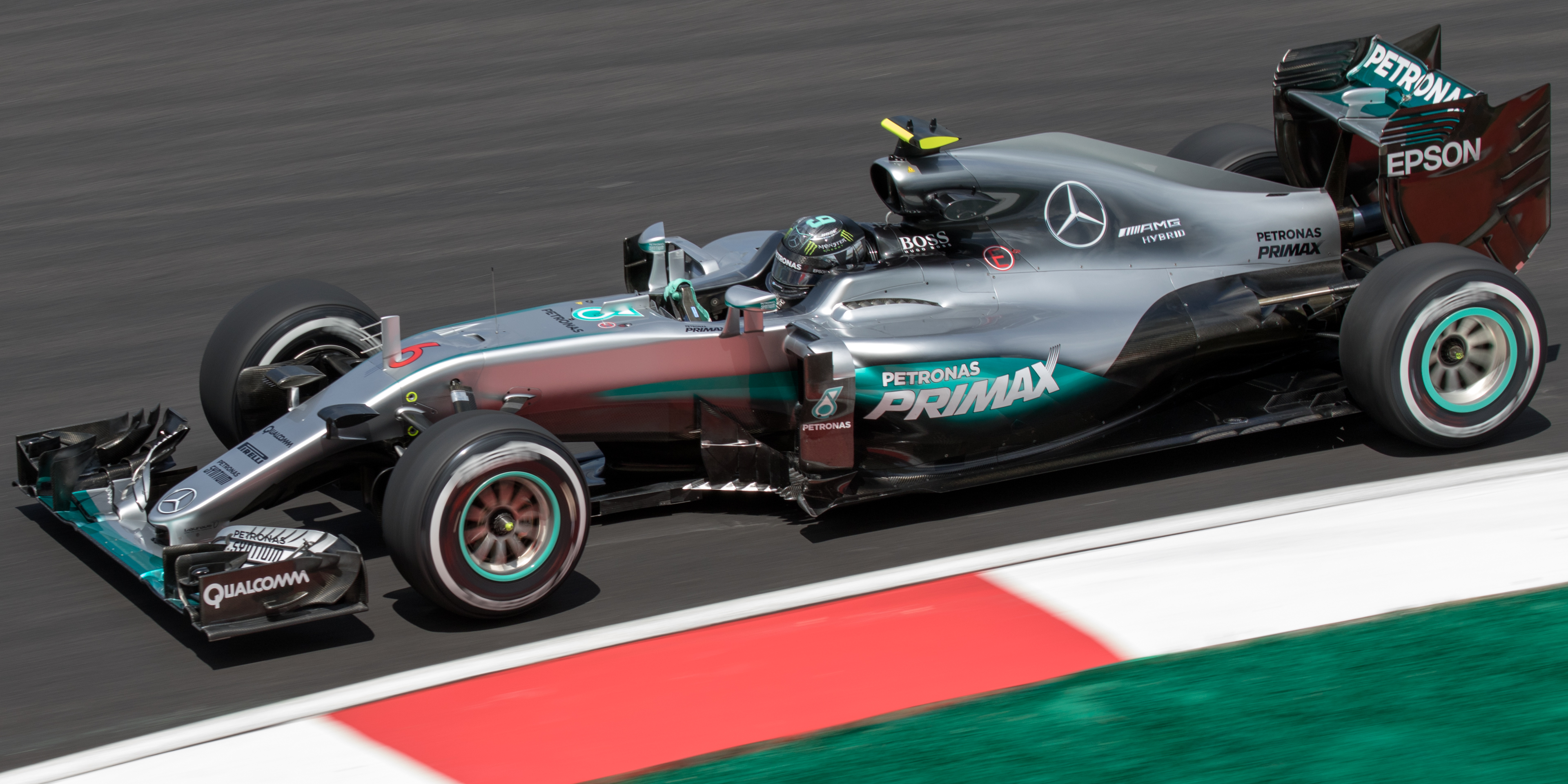 Formula One 2016 Rd.16 Malaysian GP: Nico Rosberg (Mercedes)